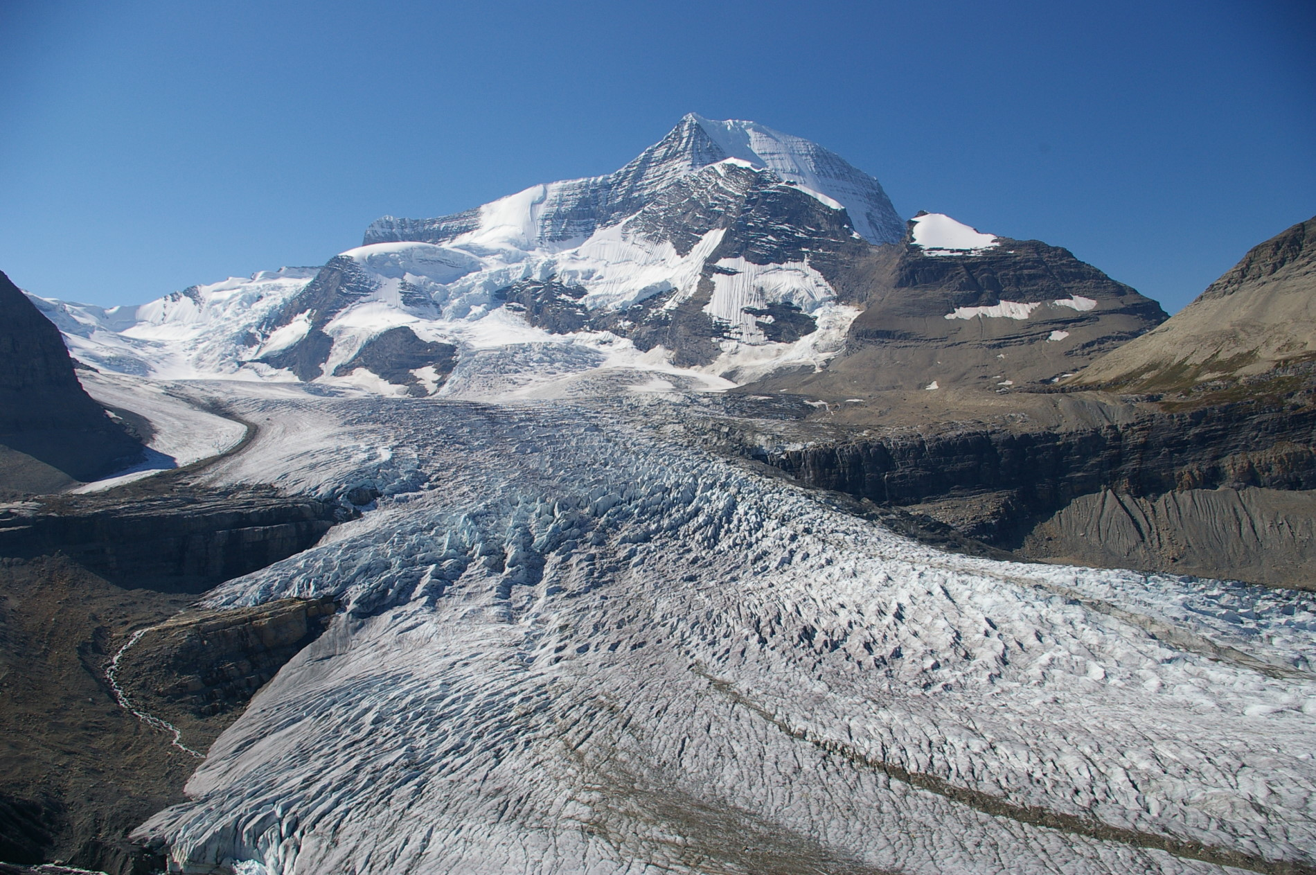 Mount Robson and the Robson Glacier as seen from the Snowbird Pass route. Mount Robson Provincial Park, British Columbia, Canada.